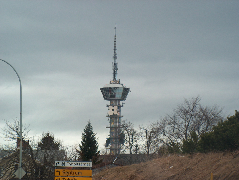 The Tyholt radiotower in Trondheim, Norway